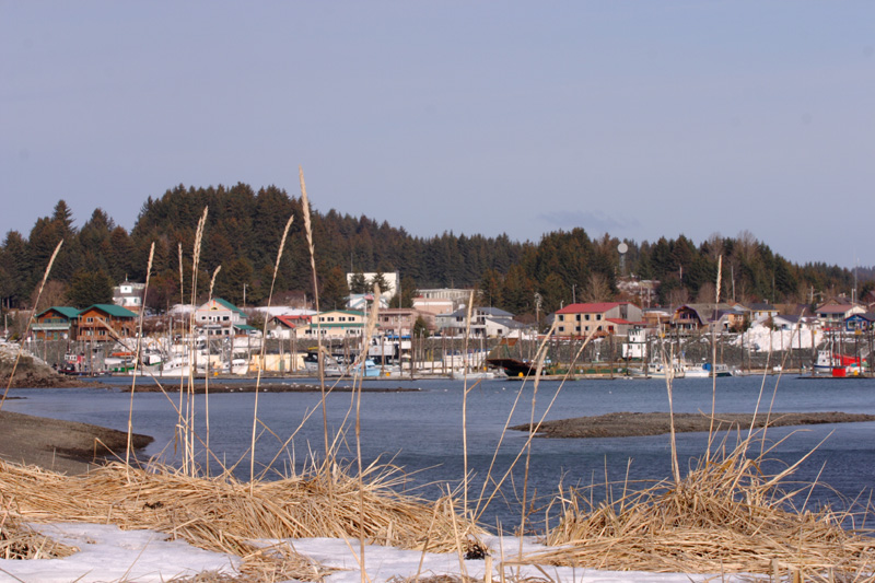 Erin McKittrick, Ground Truth Trekking, own work